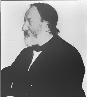 Prosper-Antoine Moitessier was a French organ builder